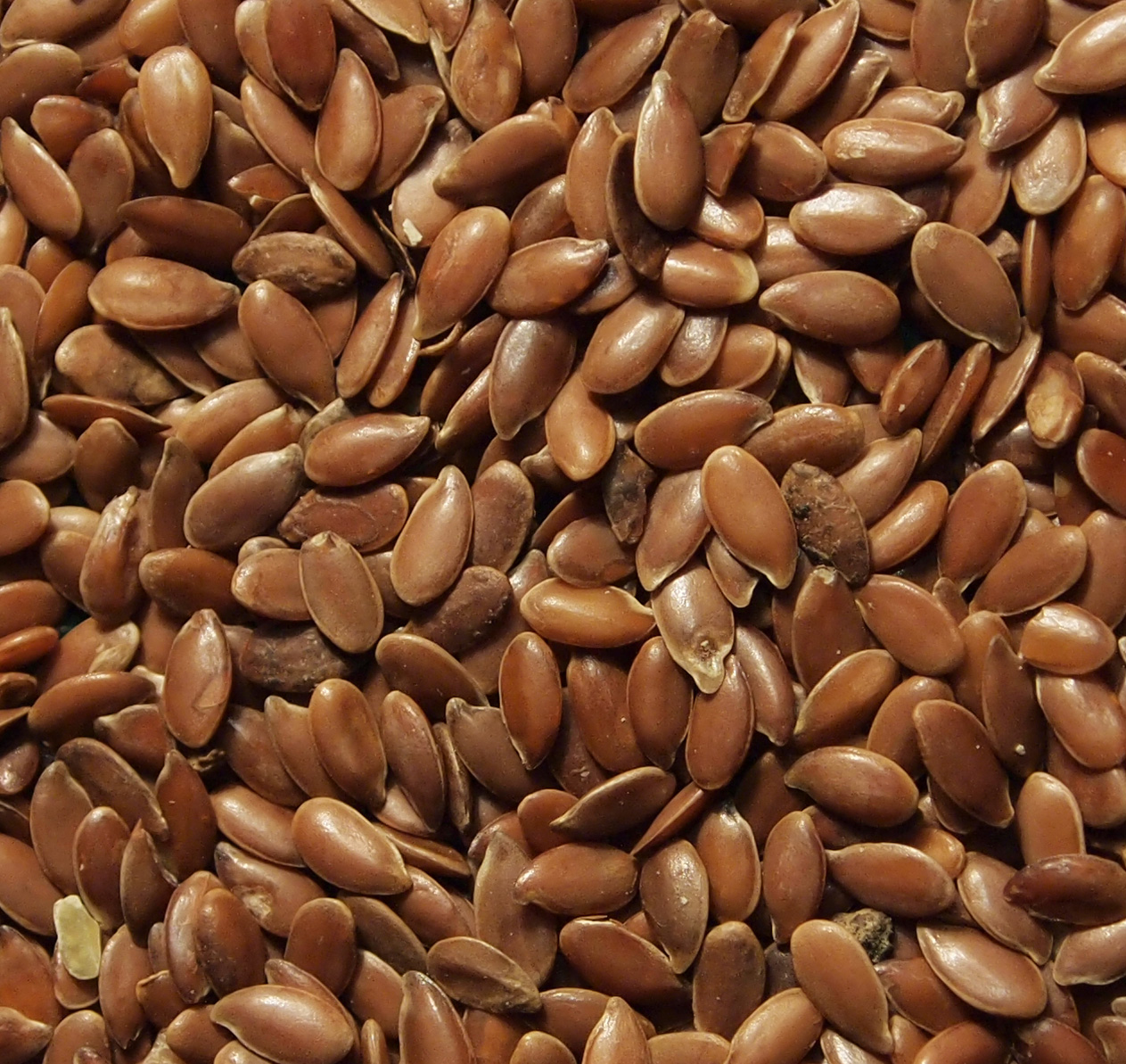 Flax seeds. By Mauste Sallinen Oy.